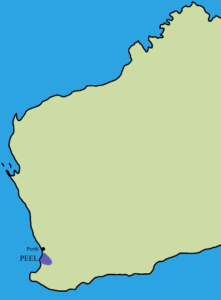 Western Australian region of Peel, i made the image